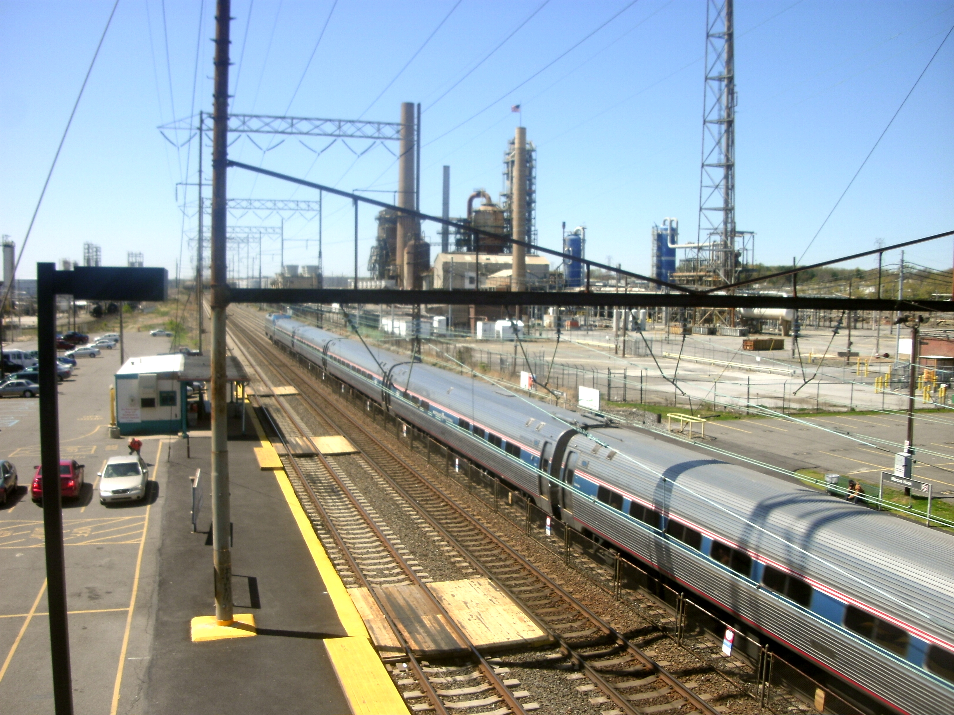 Marcus Hook station as seen from Pennsylvania Route 452 in Marcus Hook, Pennsylvania.